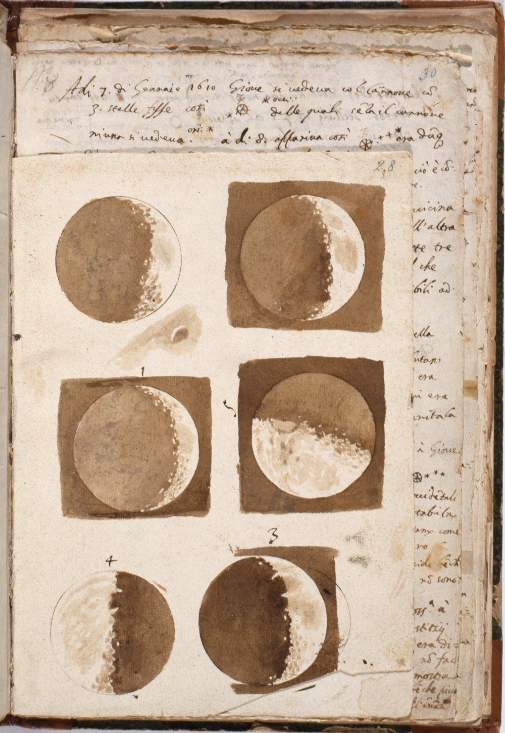 Galileo Galilei, Disegni originali delle Lune, 1609, Biblioteca Nazionale Centrale, Firenze